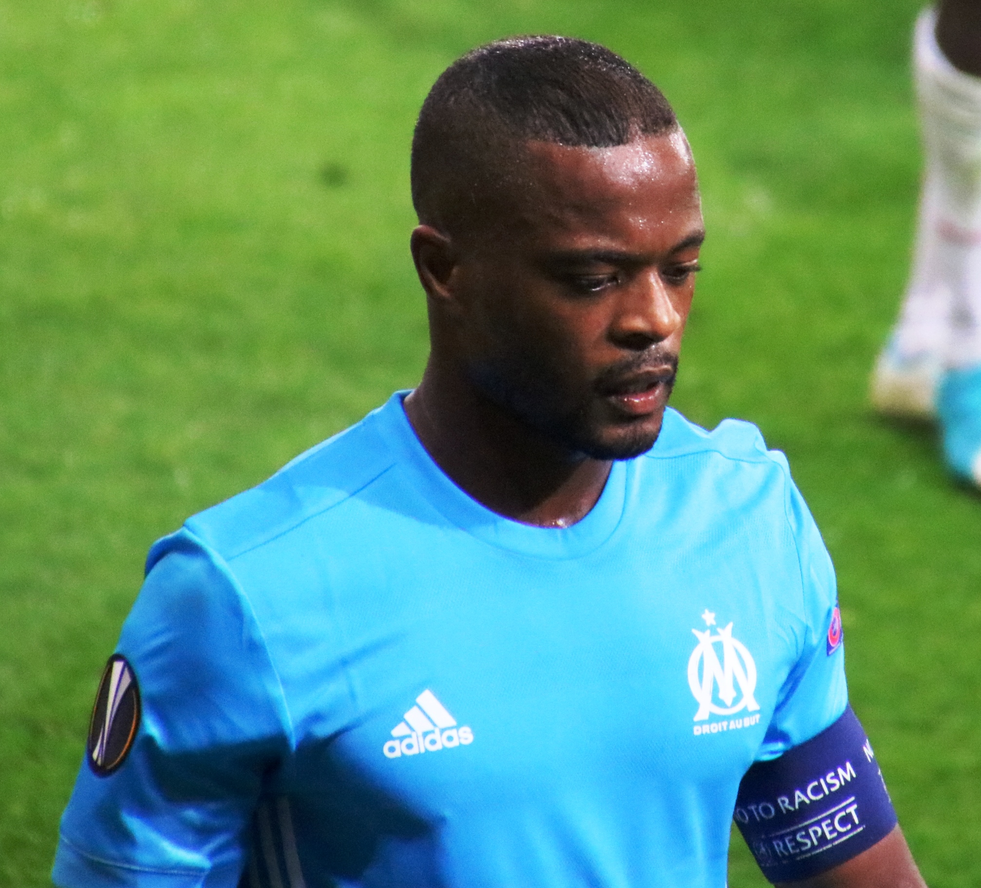 UEFA Euroleague group stage matchday 2